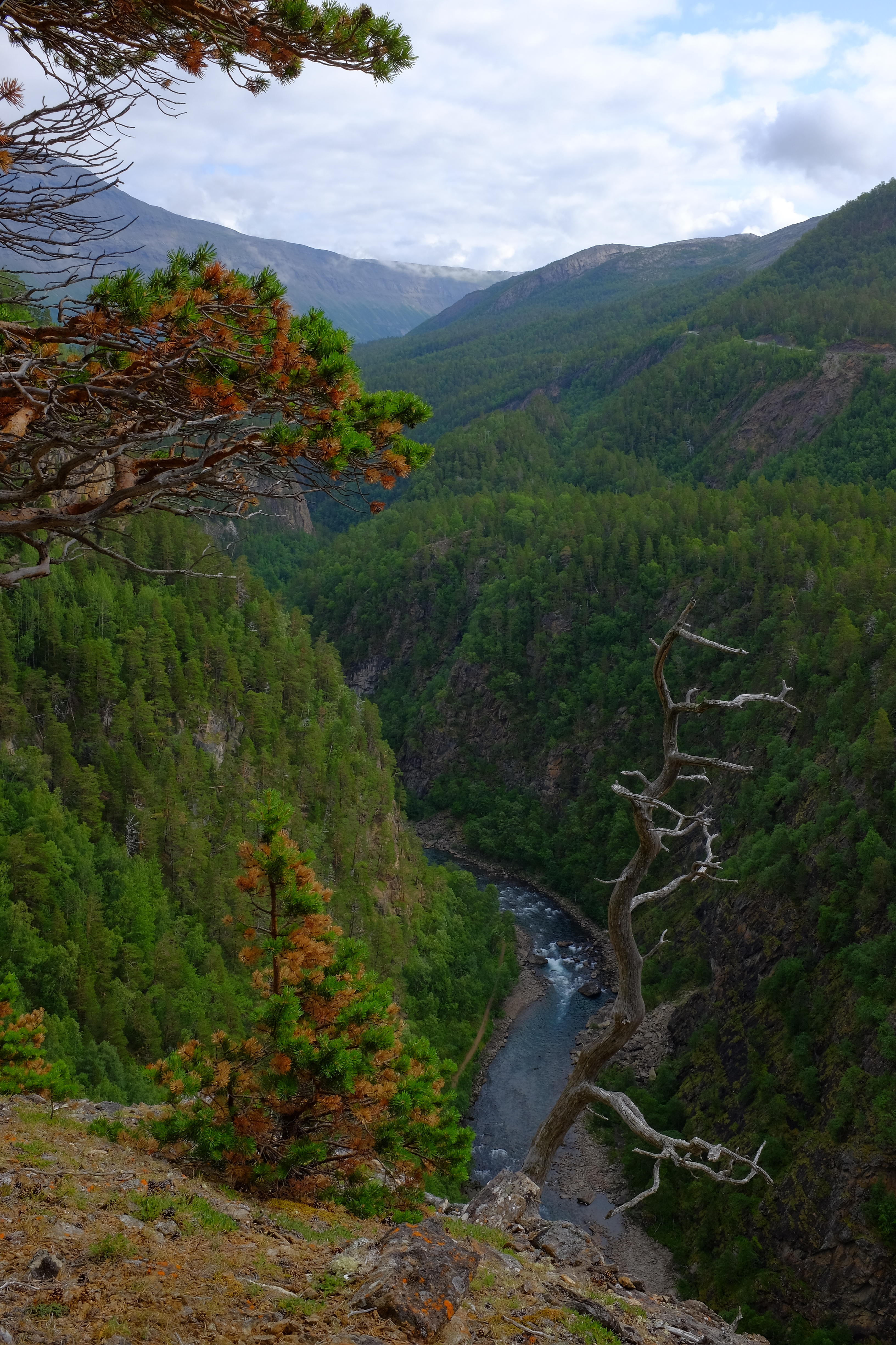 Junkerdalsura Nature Reserve in Junkerdal in Saltdal municipality in Nordland. The nature reserve has an area of 13,725 acres. The area is protected in order to preserve a large forest trail from valley bottom to low mountain with all natural plant and animal life and with all the natural ecological processes.